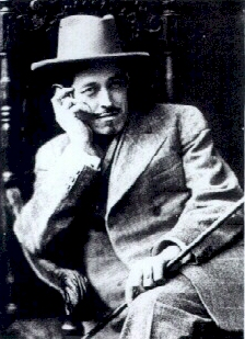 Portrait of Sadakichi Hartmann by Benjamin J. Falk, c. 1899